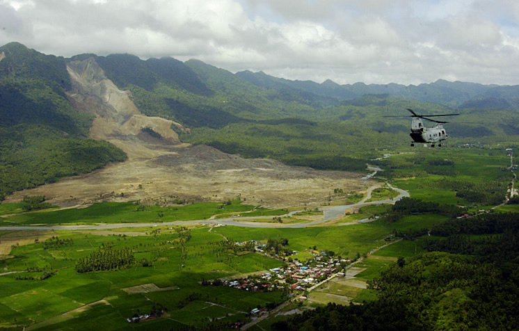 .S. Marines aboard a CH-46E Sea Knight helicopter make an aerial assessment Feb. 19, 2006, of the Feb. 17, 2006, landslide in Leyte, Philippines. The Sea Knight, from the "Flying Tigers" of Marine Medium Helicopter Squadron 262, is providing humanitarian assistance for victims of the landslide. U.S. Navy photo by Petty Officer 1st Class Michael D. Kennedy